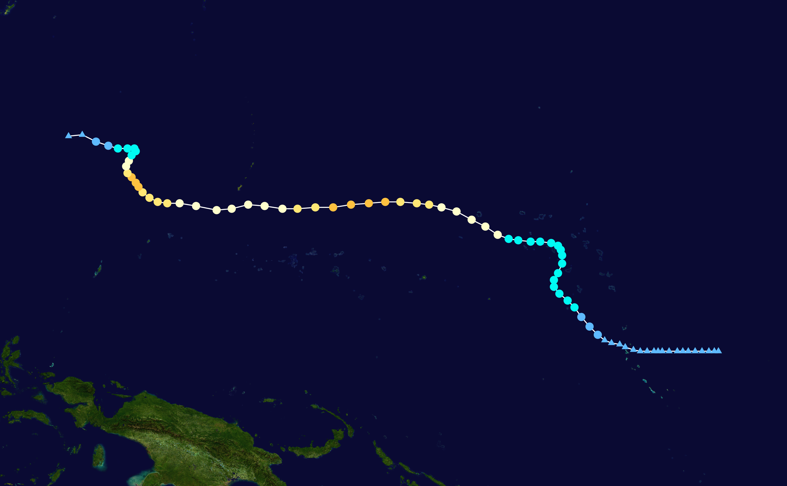 Track map of Typhoon Alice of the 1979 Pacific typhoon season. The points show the location of the storm at 6-hour intervals. The colour represents the storm's maximum sustained wind speeds as classified in the Saffir–Simpson hurricane wind scale (see below), and the shape of the data points represent the nature of the storm, according to the legend below. Saffir–Simpson hurricane wind scale Tropical depression≤38 mph≤62 km/h Category 3111–129 mph178–208 km/h Tropical storm39–73 mph63–118 km/h Category 4130–156 mph209–251 km/h Category 174–95 mph119–153 km/h Category 5≥157 mph≥252 km/h Category 296–110 mph154–177 km/h Unknown Storm typeTropical cycloneSubtropical cycloneExtratropical cyclone / Remnant low / Tropical disturbance